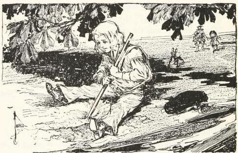 illustration from The Road to Oz